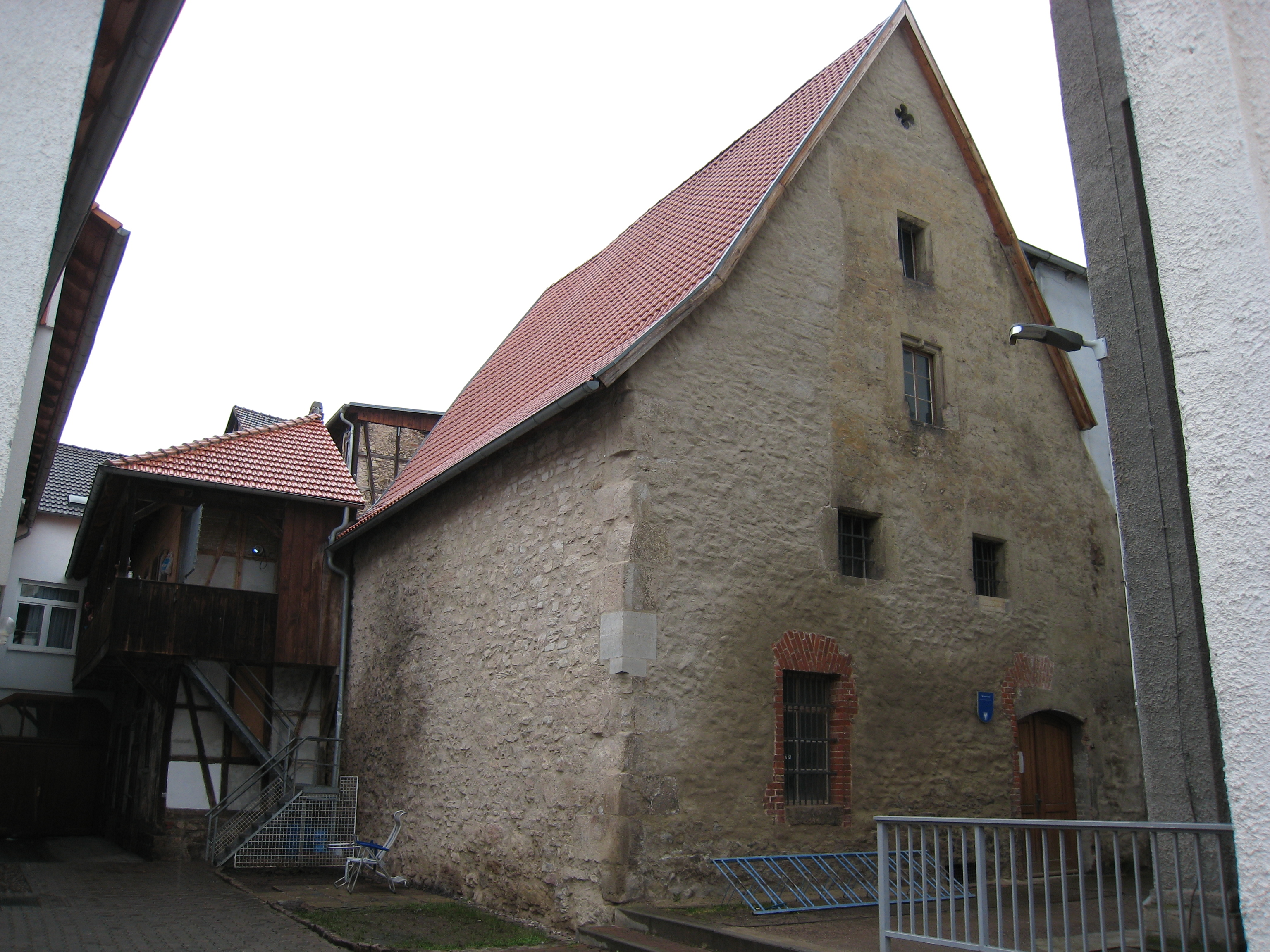 Bower in Arnstadt, Rosenstrasse 19-23